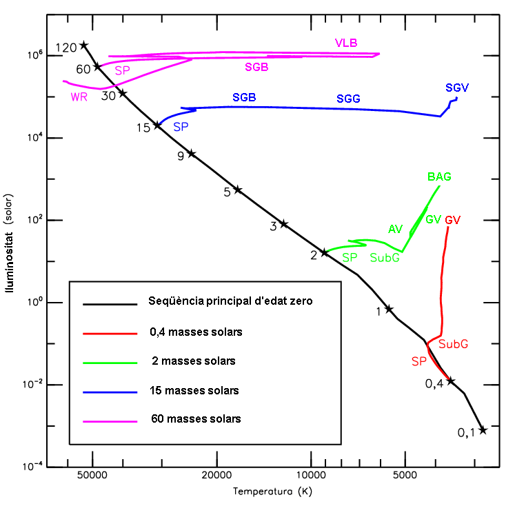 Sample stellar evolutionary tracks for single stars, zero initial rotational velocity, and solar metallicity